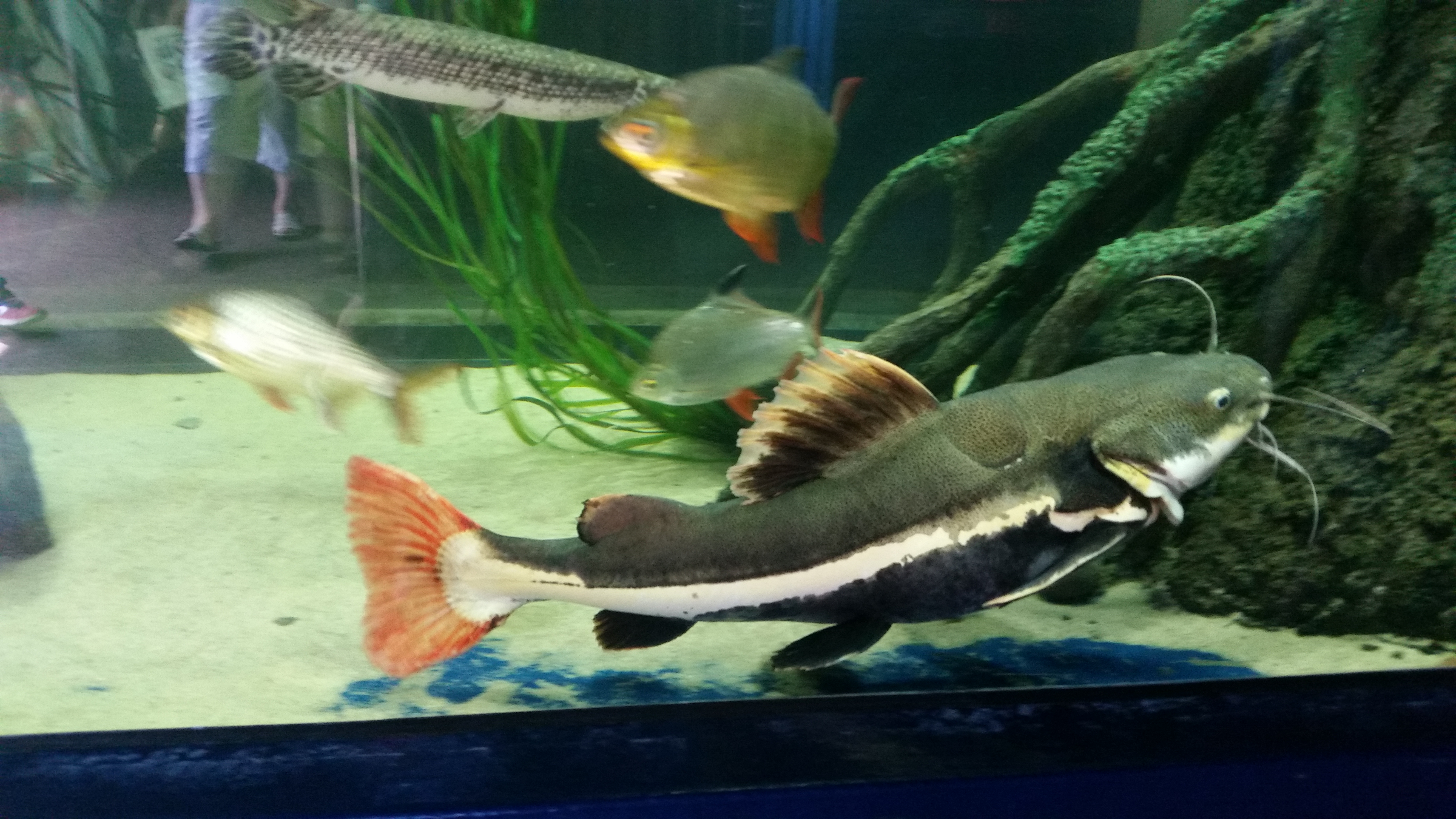 Redtail catfish (Phractocephalus hemioliopterus) in Southend-on-Sea aquarium, England.